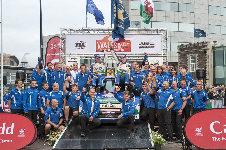 Wales Rally Great Britain 2012 Ford Fiesta RS WRC,Ford WRT,Ford World Rally Team,Jari-Matti Latvala,Miikka Anttila,Motorsport,Podium,Rally,Rallye,Siegerehrung,Team,WRC,Wales Rally GB